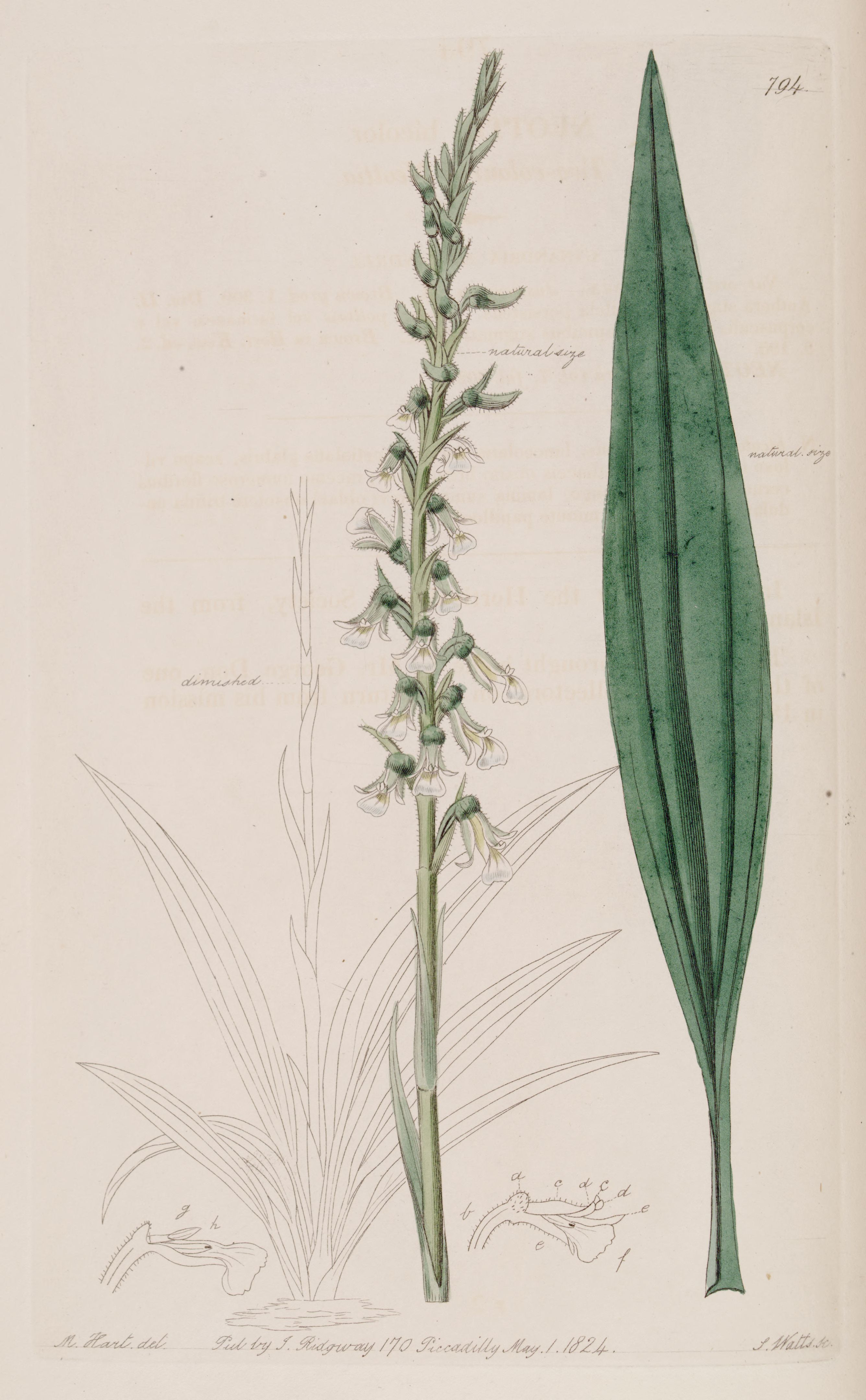 Illustration of Cyclopogon bicolor (as syn. Neottia bicolor)